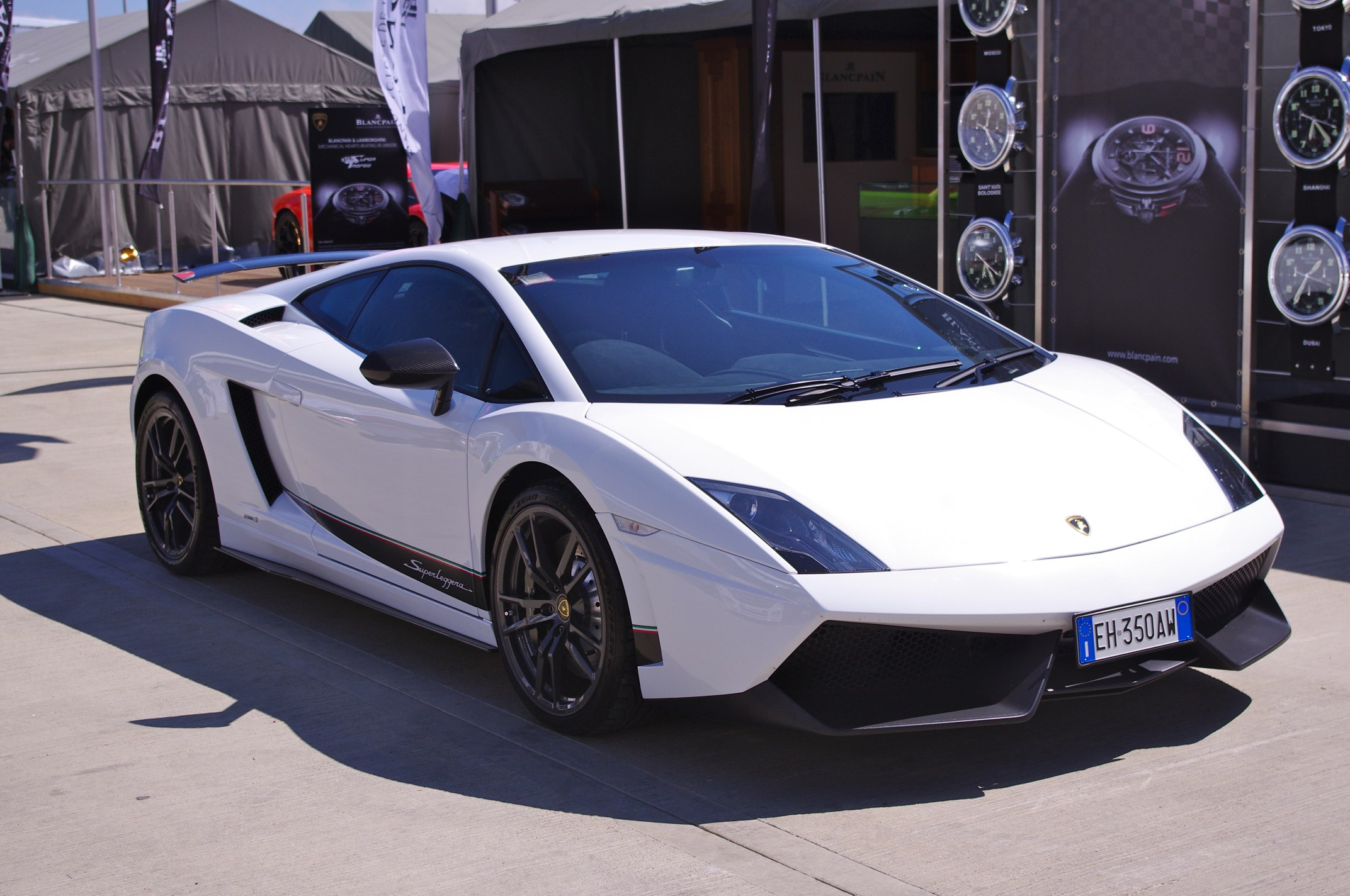 Silverstone Supercars 2011